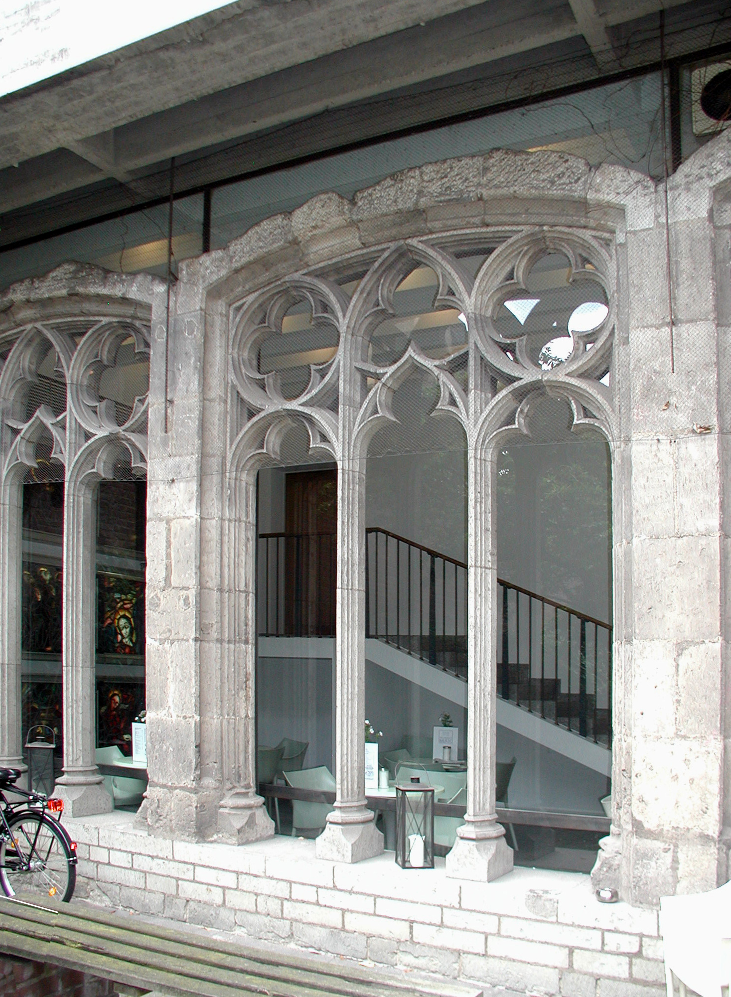 Cologne, former cross-coat of the old "Minoriten" cloister